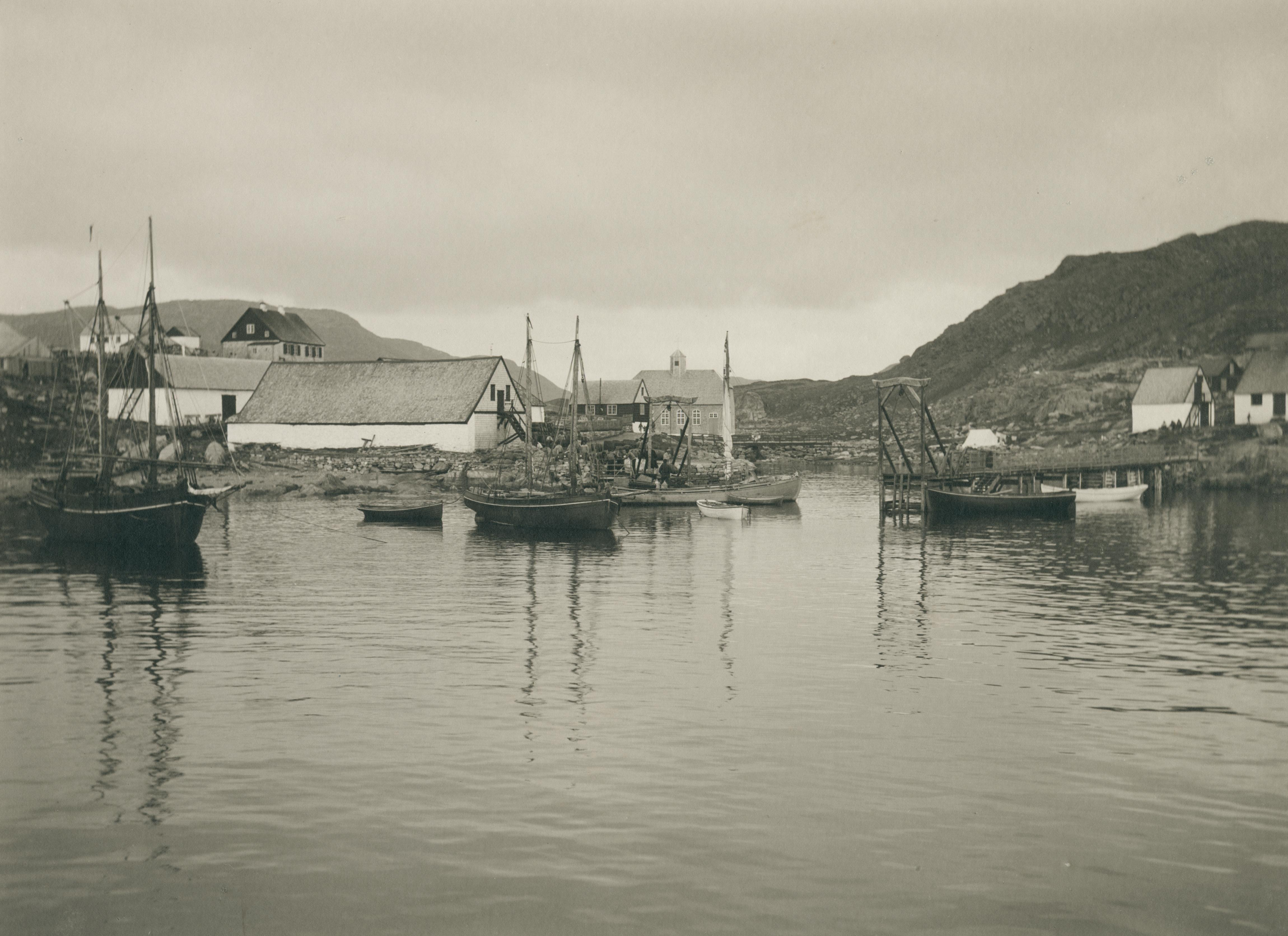 The Town Qaqortoq/Julianehåb. The estuary.